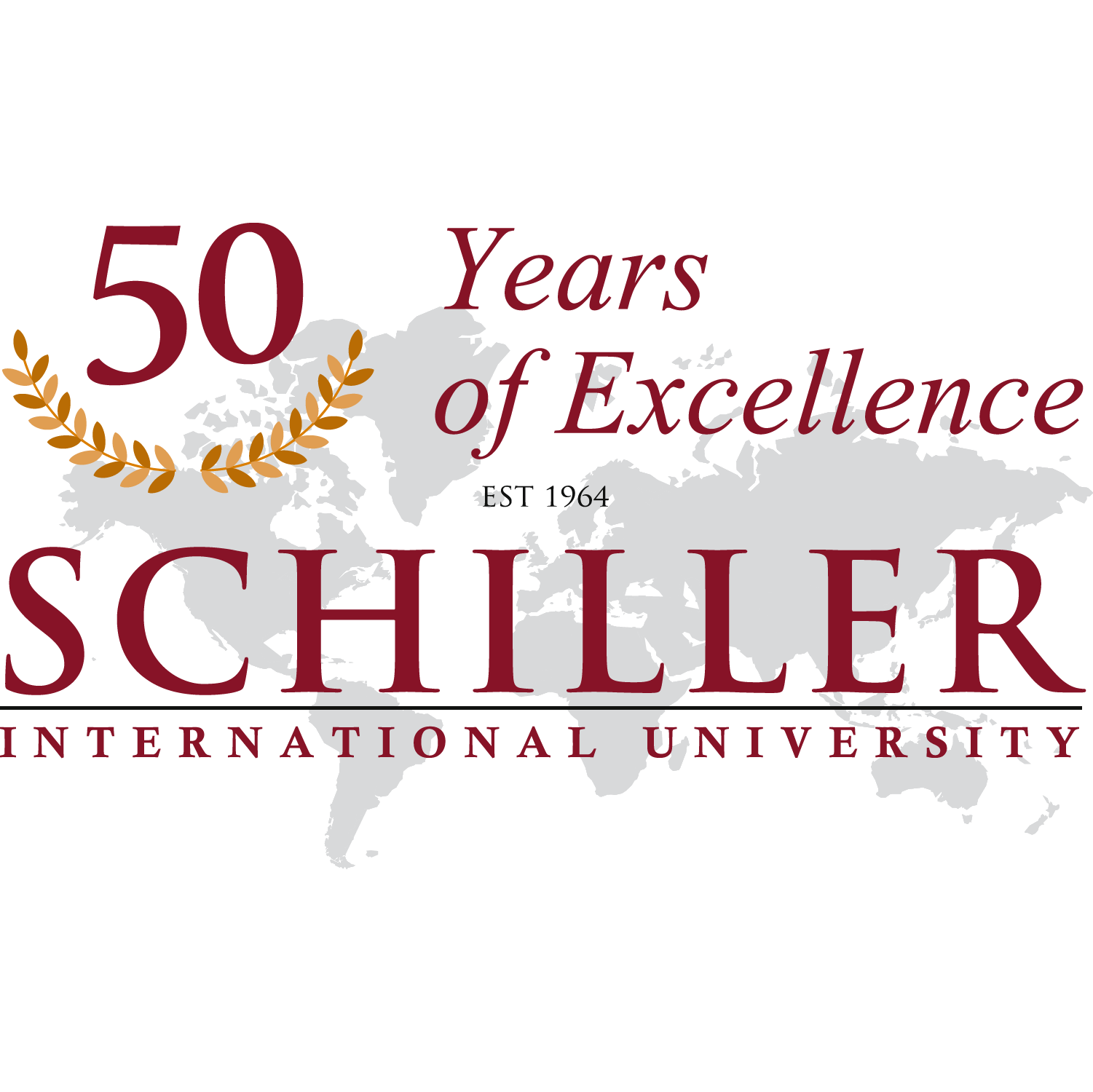 Schiller International University - Logo - 50 Years Anniversary (square)